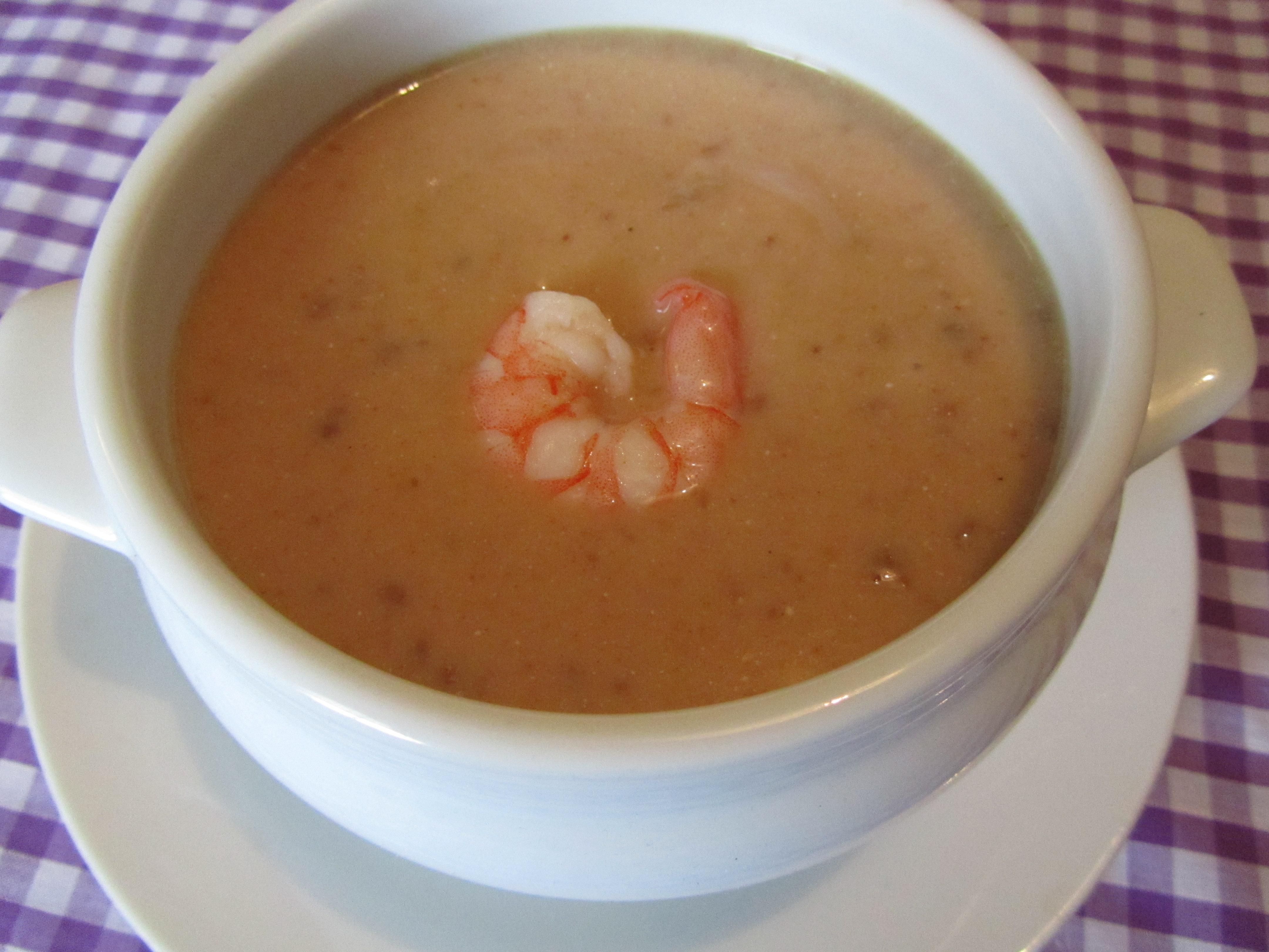 Shrimp Bisque